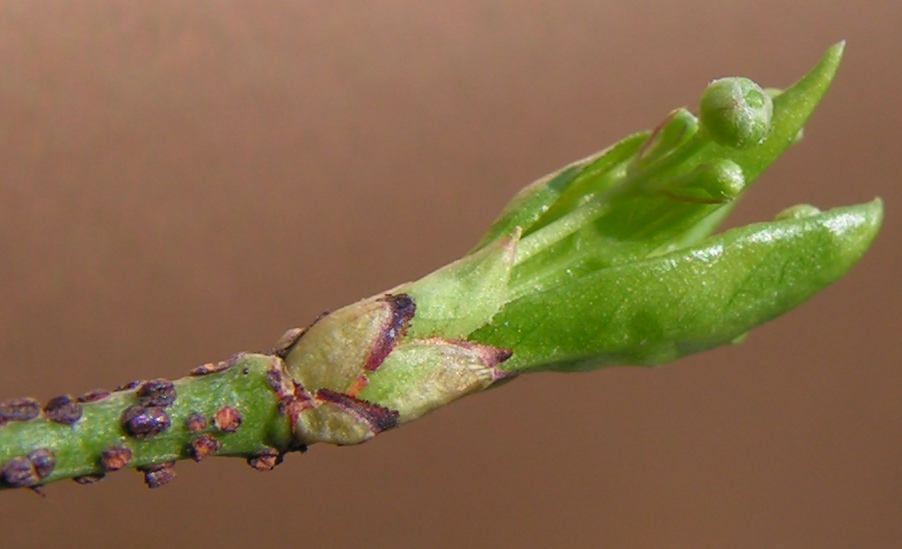 Euonymus verrucosus. Moscow region, Russia.